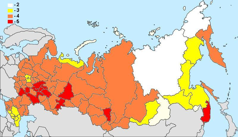 Map: number of GSM mobile operators in different regions of Russian Federation